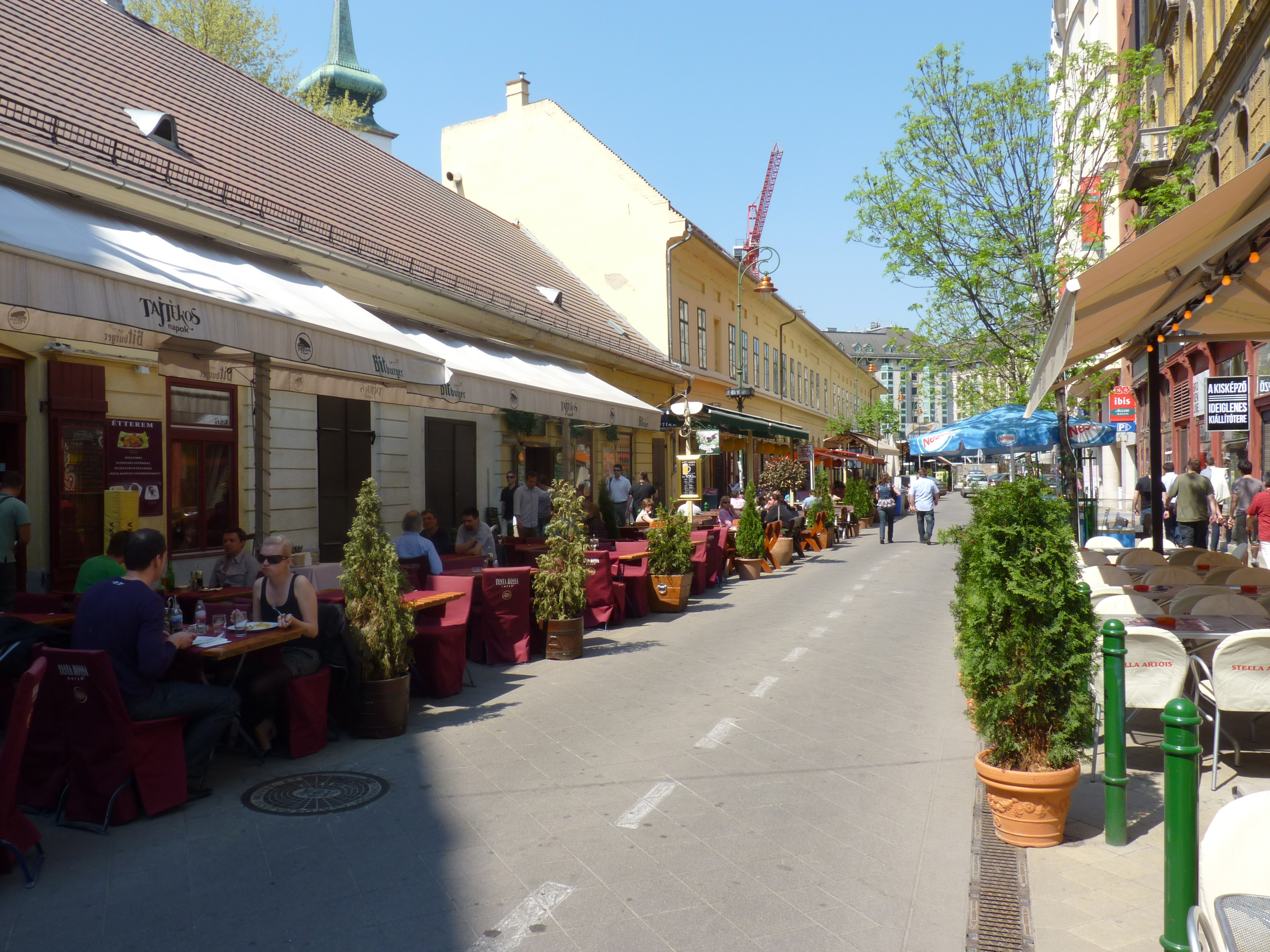 Tajtékos Napok Restaurant in Ráday utca, Budapest